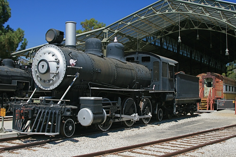 Sharp and Fellows No 7 (ALCO [Dickson] #26264, 12/1902), 2-6-2 steam locomotive at Travel Town Museum, Los Angeles, CA